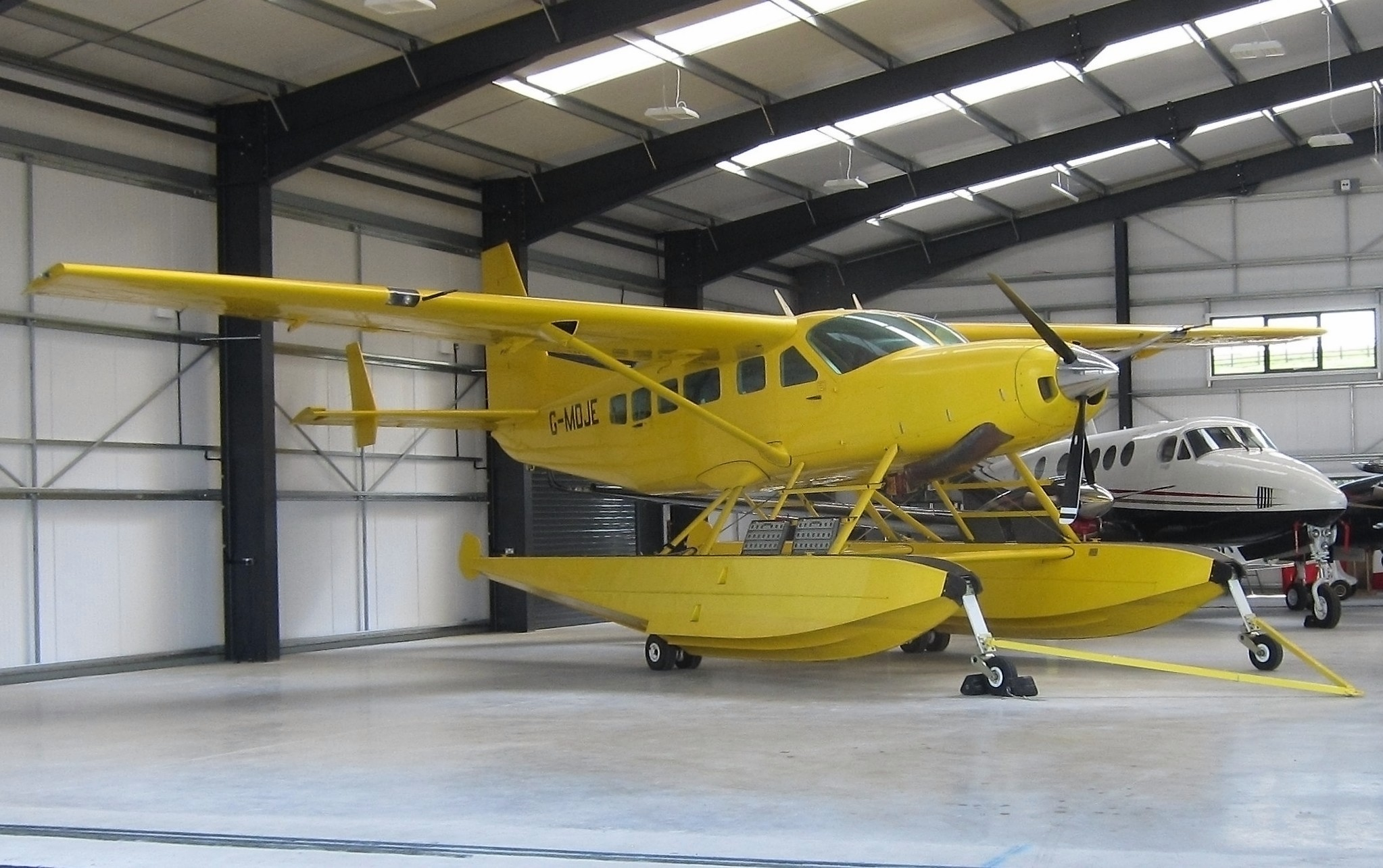 Cessna 208 Caravan 1 floatplane (reg G-MDJE) at Gloucestershire Airport, England. Built 2001.